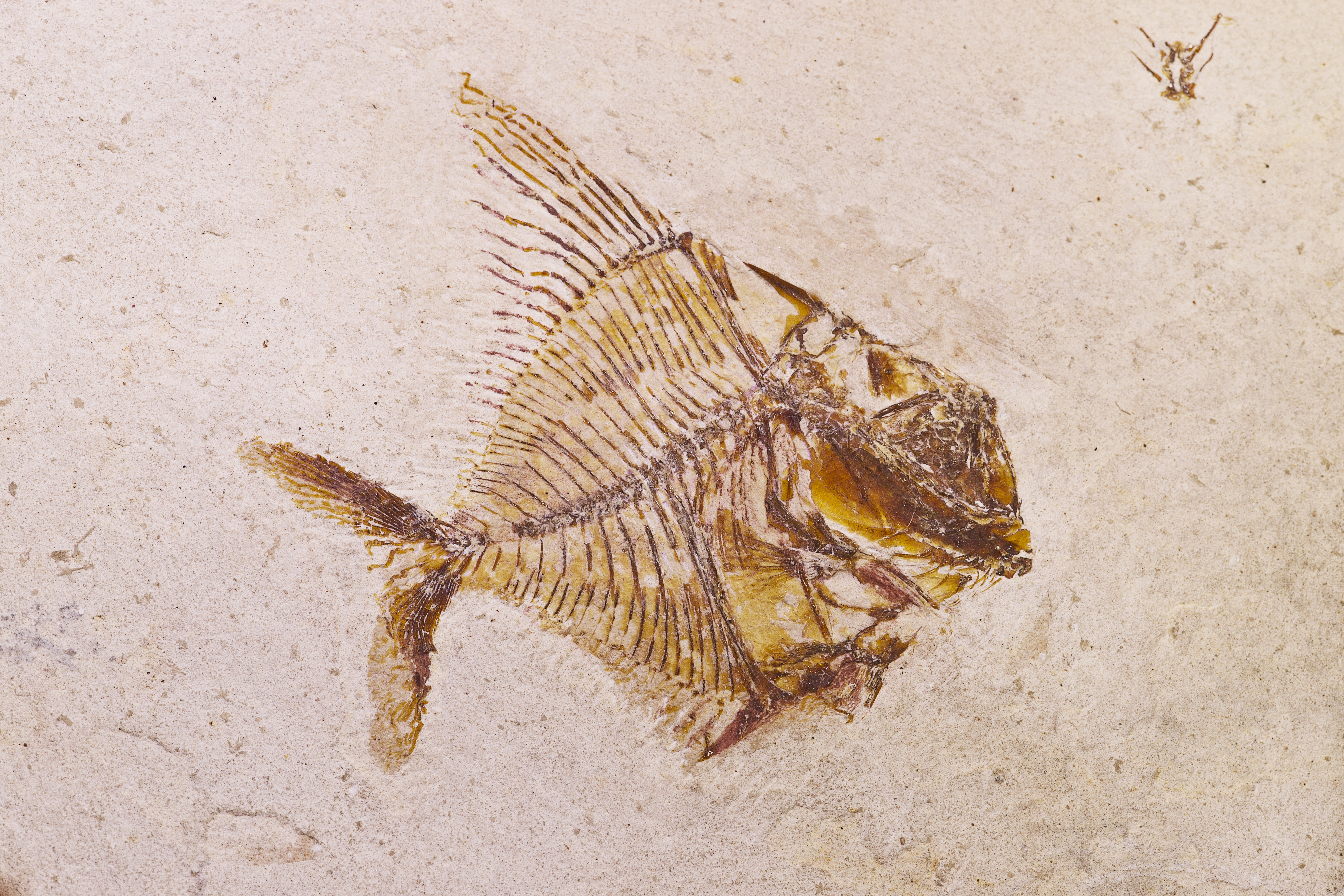 Aipichthys minor (Pictet 1850) teleost fish of the Cenomanian Tethys – Cenomanian (from -99.6 to - 93.5 million year ago) Locality : Hjoula Libanum Size : 45x42 mm